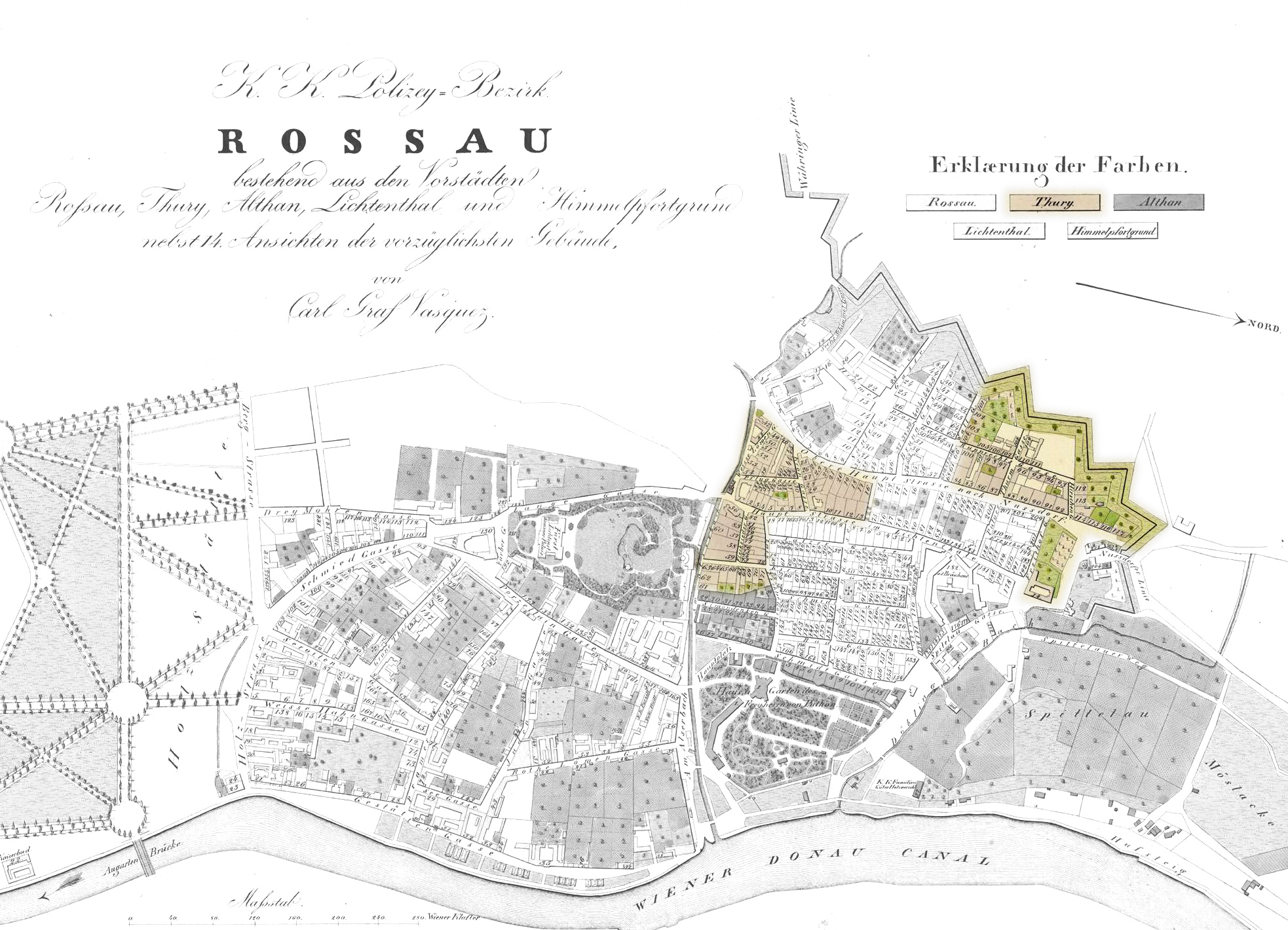 Map of Vienna / Thurygrund, approx. 1830